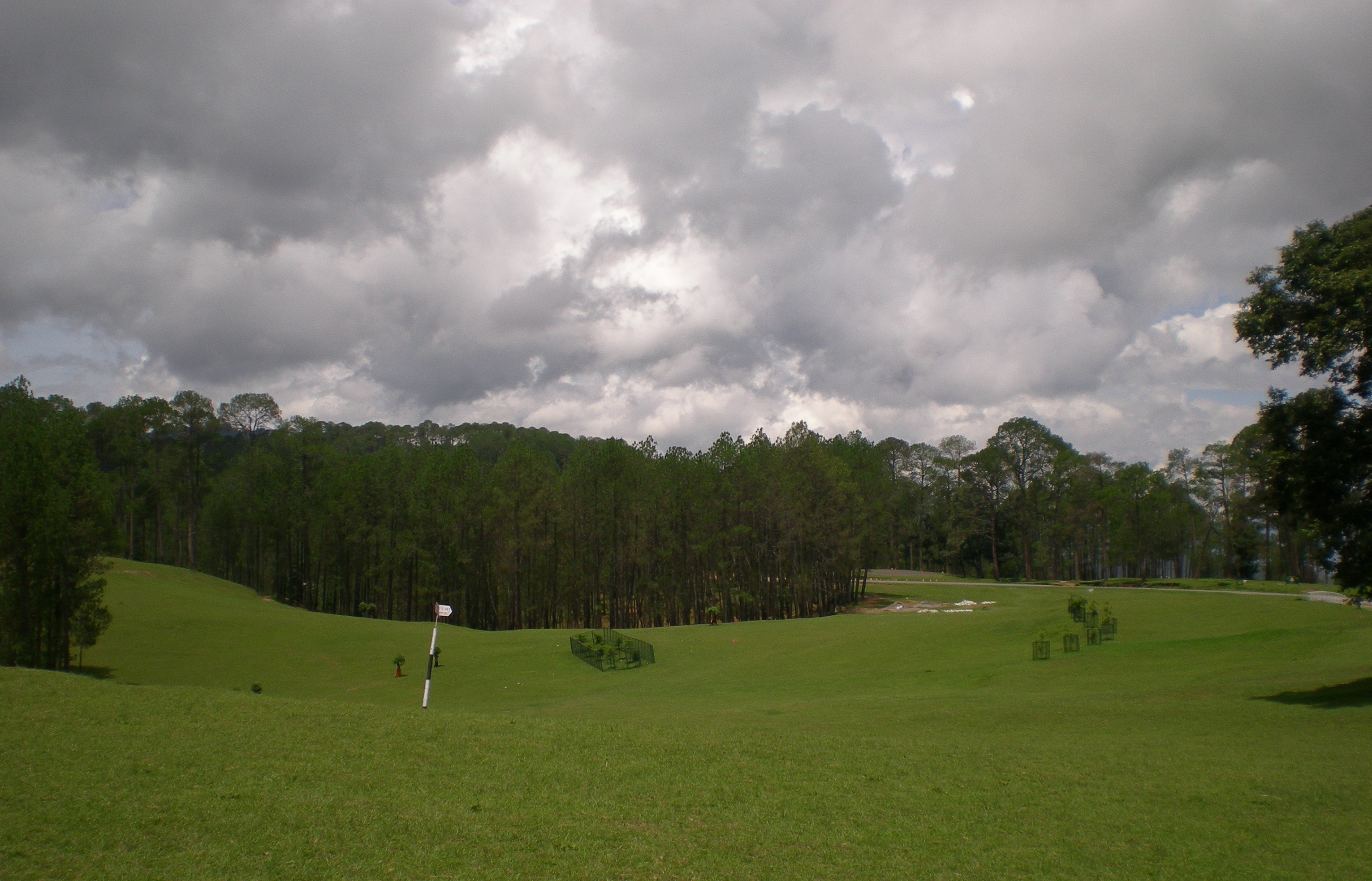 golf ground ranikhet